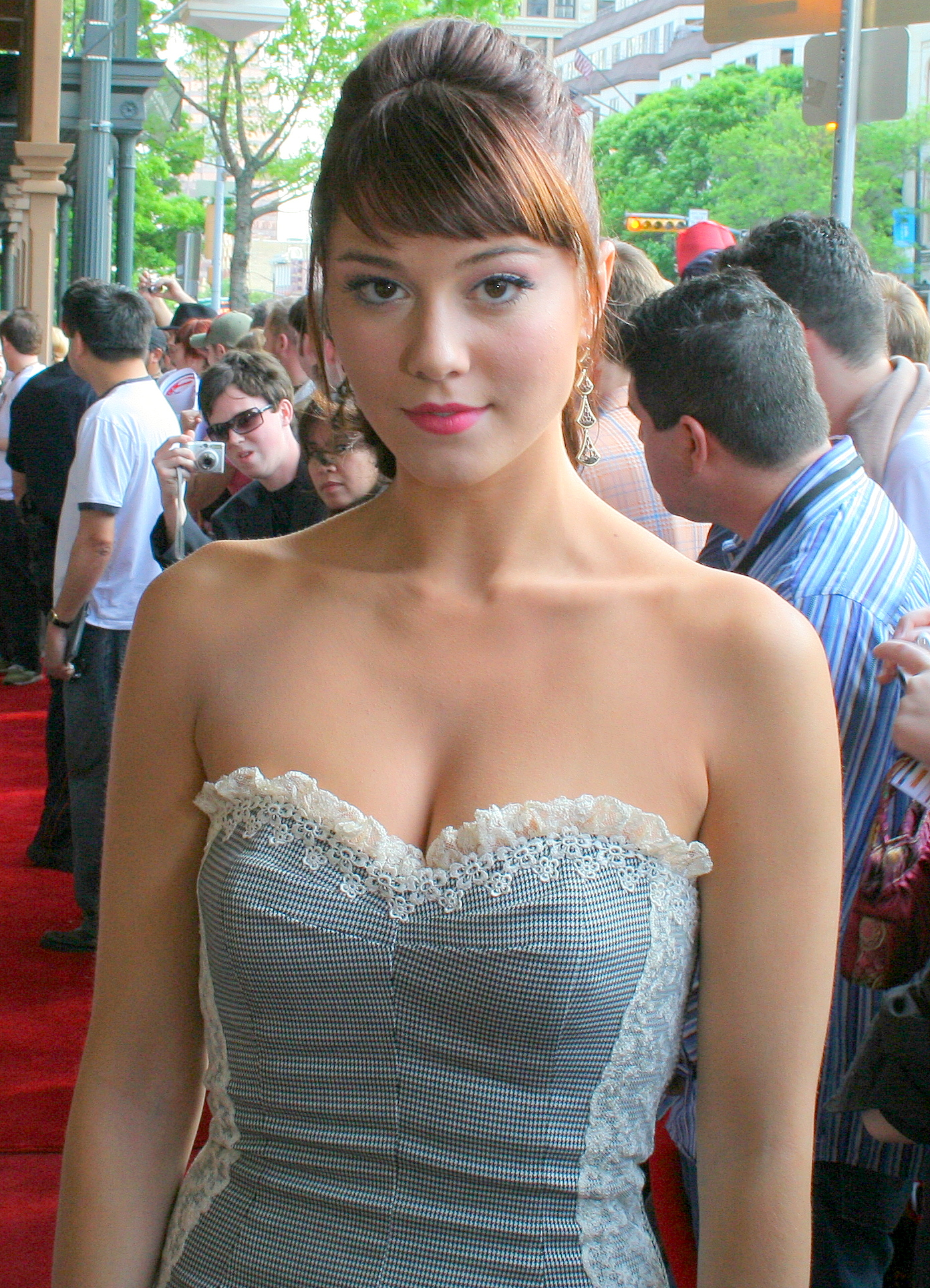 Actress Mary Elizabeth Winstead at the premiere of Grindhouse, Austin, Texas.